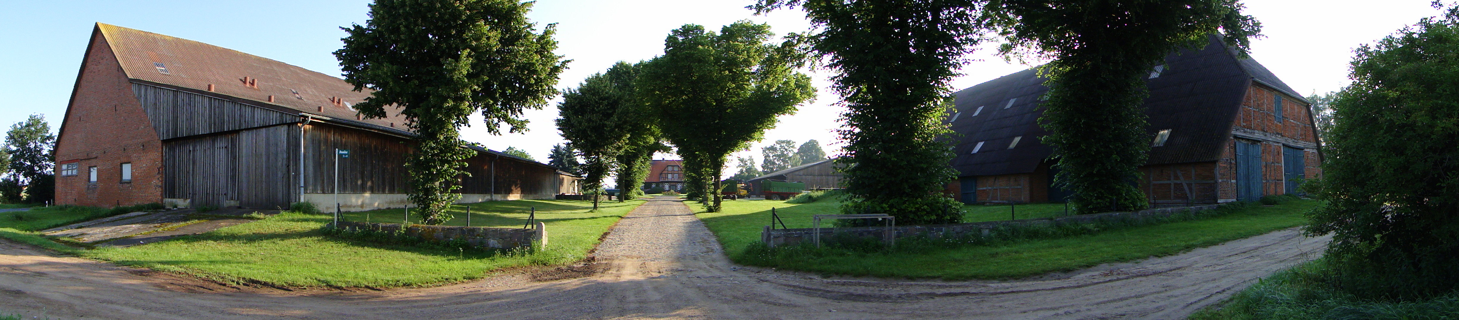 Manor in Kittlitz, disctrict Herzogtum Lauenburg, Schleswig-Holstein, Germany